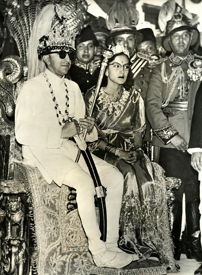 King Mahendra Bir Bikram Shah and Queen Ratna Rajya Lakshmi Devi, shortly after the King’s coronation, 1955